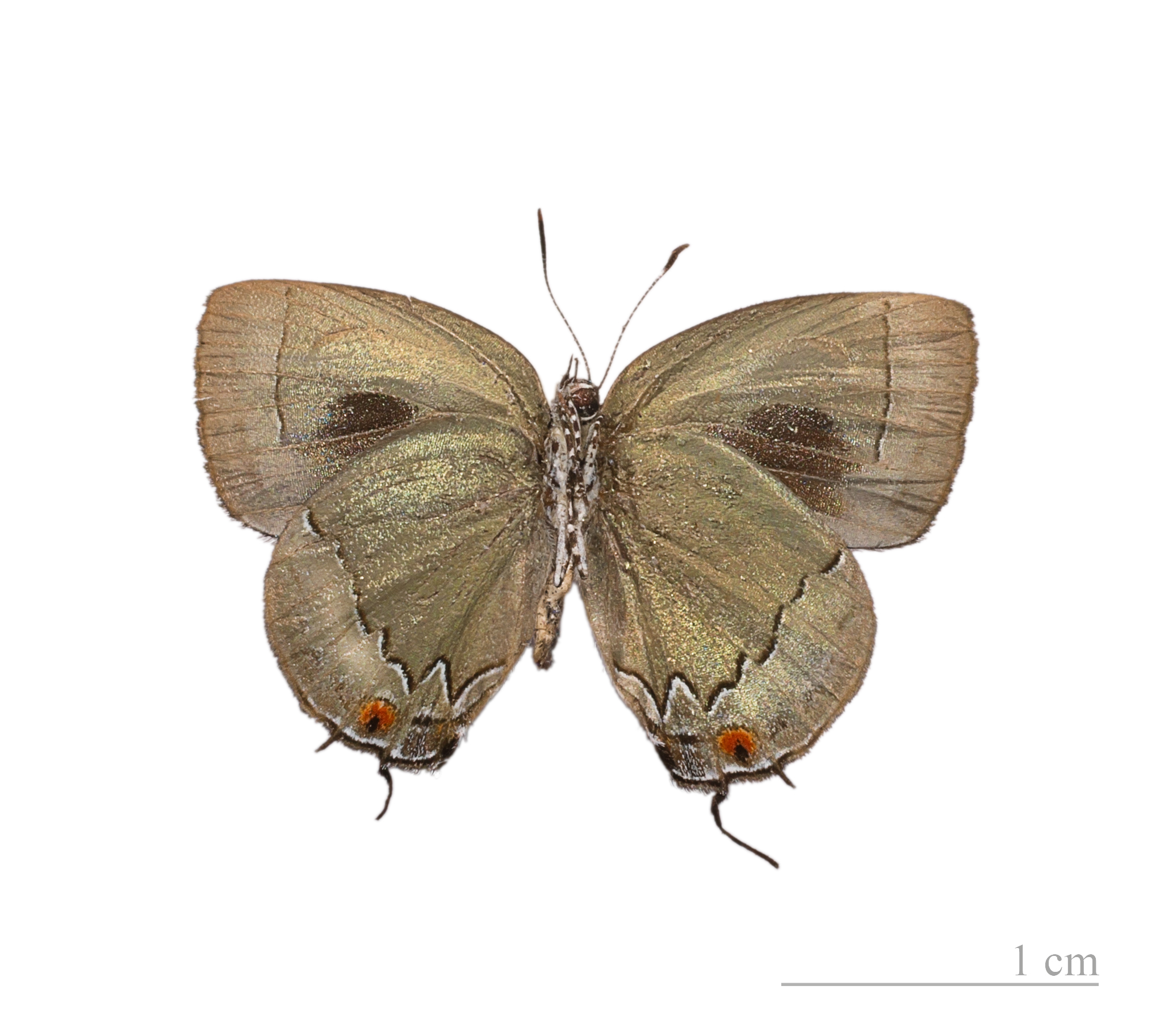 ♂ - △ Ventral side Locality : Chutes Fourgassié, Route de Kaw, French Guiana.